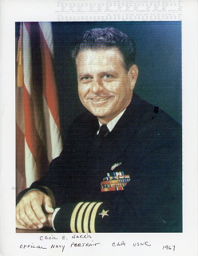 Official Navy portrait of Capt. Cecil E. Harris, USNR, taken around the time of his retirement in 1967.